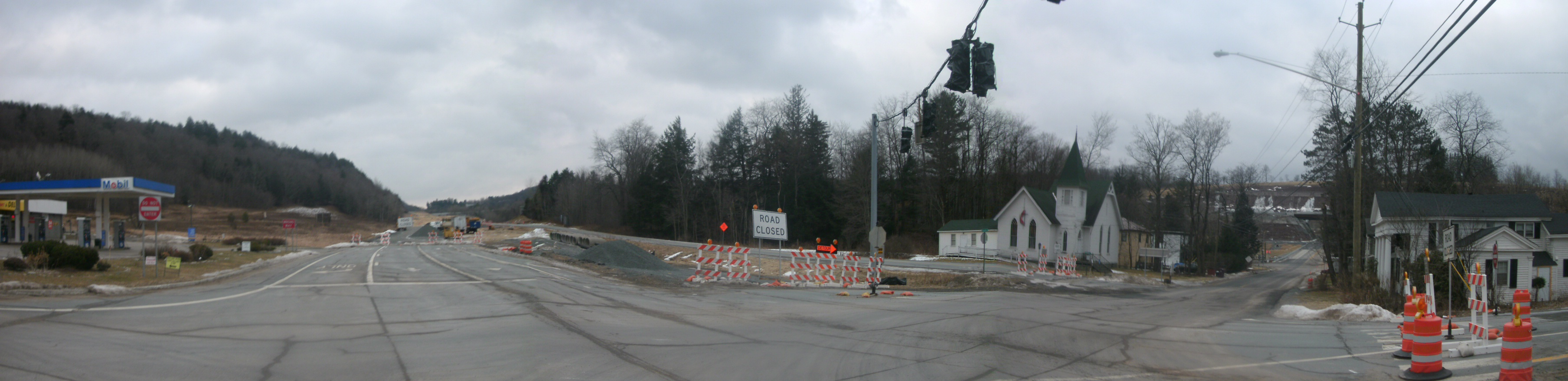 A panoramic view of the former alignment of New York State Route 17, the hamlet of Parksville, New York, and the closed Sullivan County Route 176.